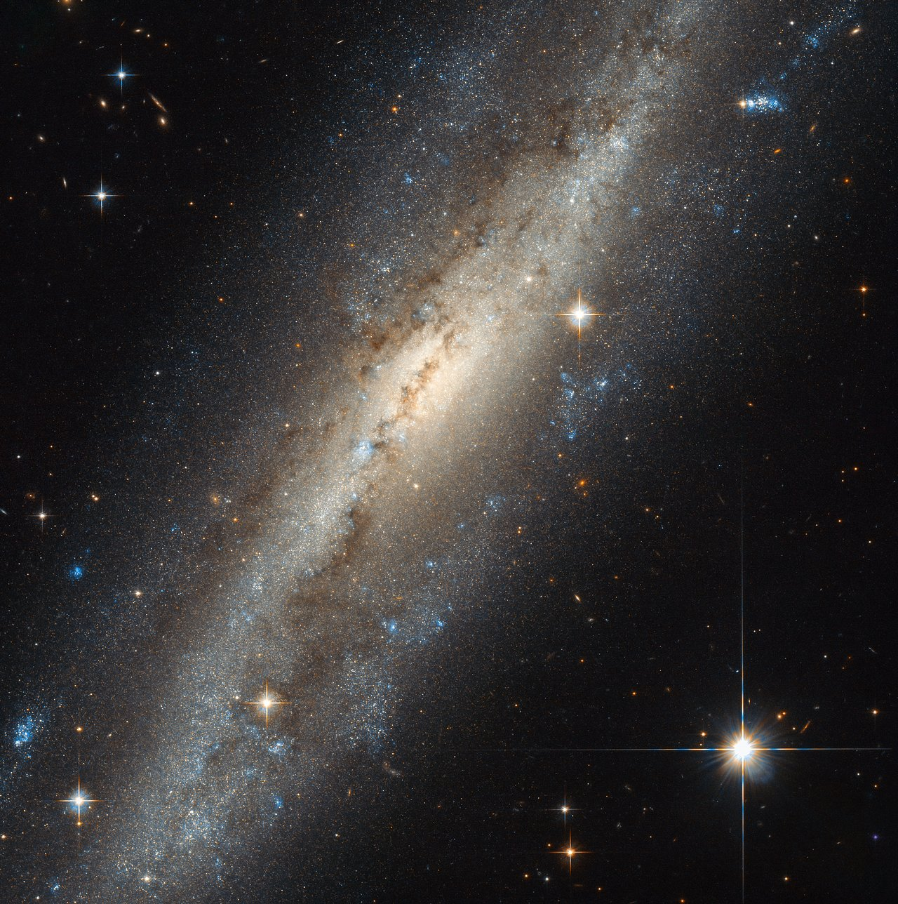 Not to be confused with our neighbouring Andromeda Galaxy, the Andromeda constellation is one of the 88 modern constellations. More importantly for this image, it is home to the pictured NGC 7640. Many different classifications are used to identify galaxies by shape and structure — NGC 7640 is a barred spiral type. These are recognisable by their spiral arms, which fan out not from a circular core, but from an elongated bar cutting through the galaxy’s centre. Our home galaxy, the Milky Way, is also a barred spiral galaxy. NGC 7640 might not look much like a spiral in this image, but this is due to the orientation of the galaxy with respect to Earth — or to Hubble, which acted as photographer in this case! We often do not see galaxies face on, which can make features such as spiral arms less obvious. There is evidence that NGC 7640 has experienced some kind of interaction in its past. Galaxies contain vast amounts of mass, and therefore affect one another via gravity. Sometimes these interactions can be mild, and sometimes hugely dramatic, with two or more colliding and merging into a new, bigger galaxy. Understanding the history of a galaxy, and what interactions it has experienced, helps astronomers to improve their understanding of how galaxies — and the stars within them — form.